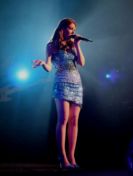 Lena Katina live in St.Petersburg, Russia